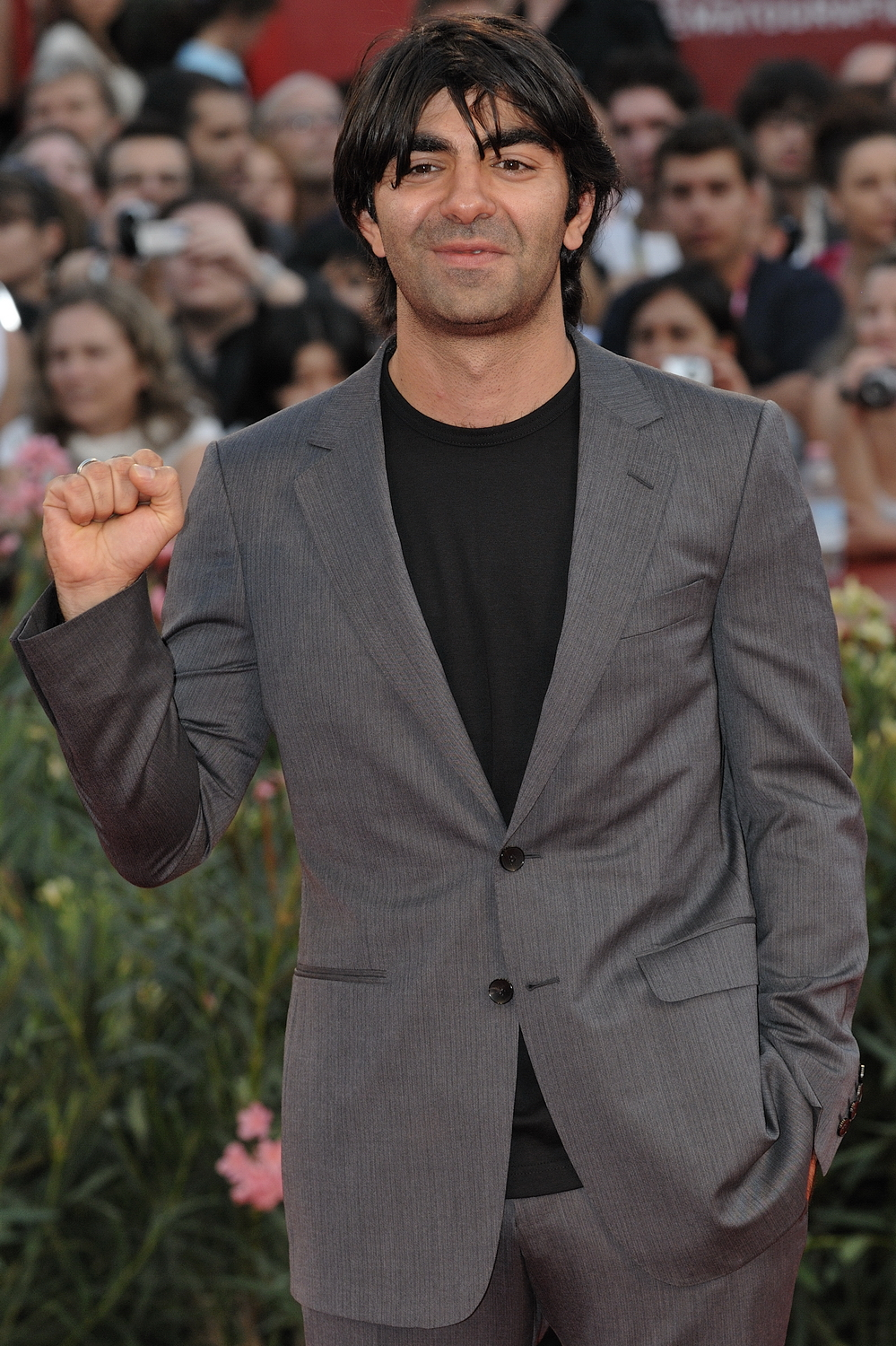 Director Fatih Akin at the closing ceremony for the 2009 Venice Film Festival